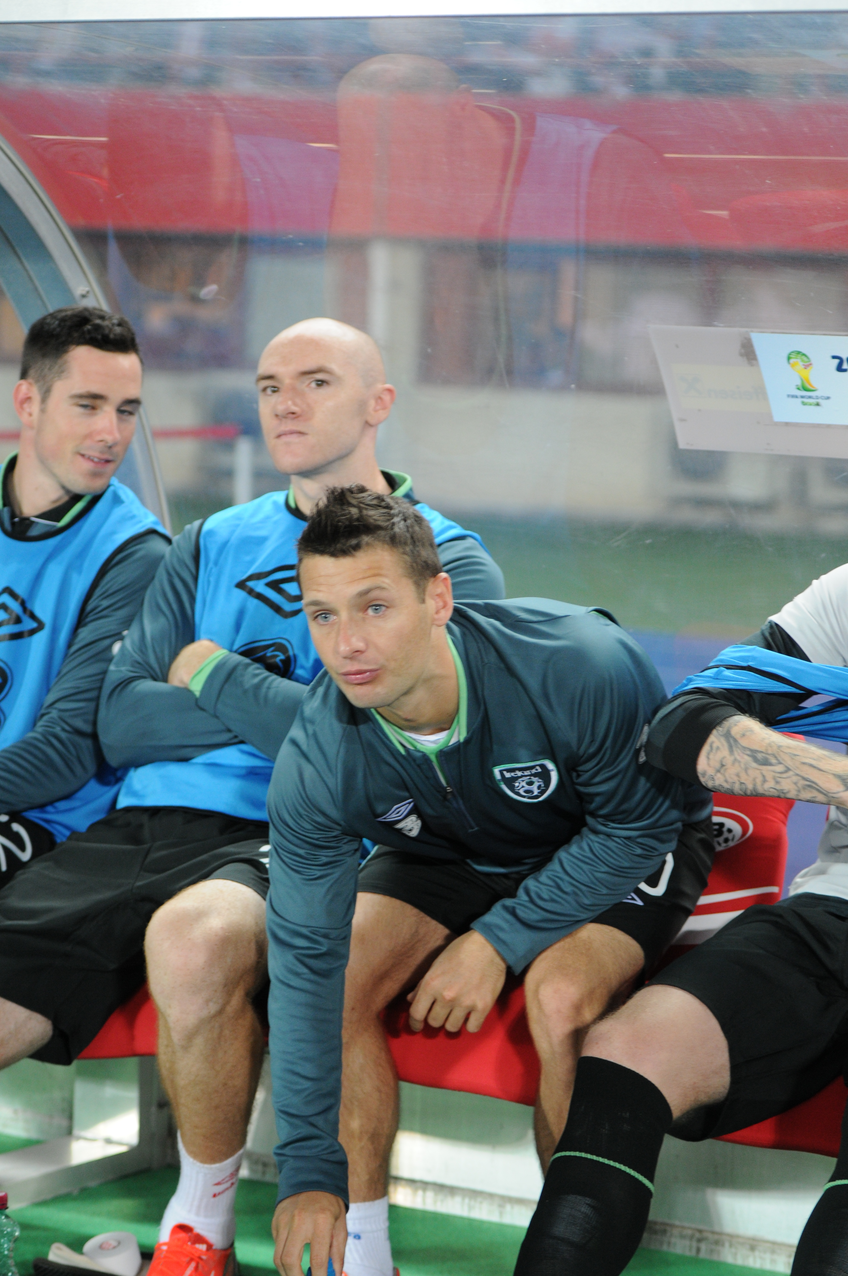 2014 FIFA World Cup qualification (UEFA), Group C: Republic of Ireland national football team at 10. September 2013 before the match against the Austria national football team (0:1) in the Ernst-Happel-Stadion in Vienna. Here: Wes Hoolahan, Irish midfielder. The making of this work was supported by Wikimedia Austria. For other files made with the support of Wikimedia Austria, please see the category Supported by Wikimedia Österreich.